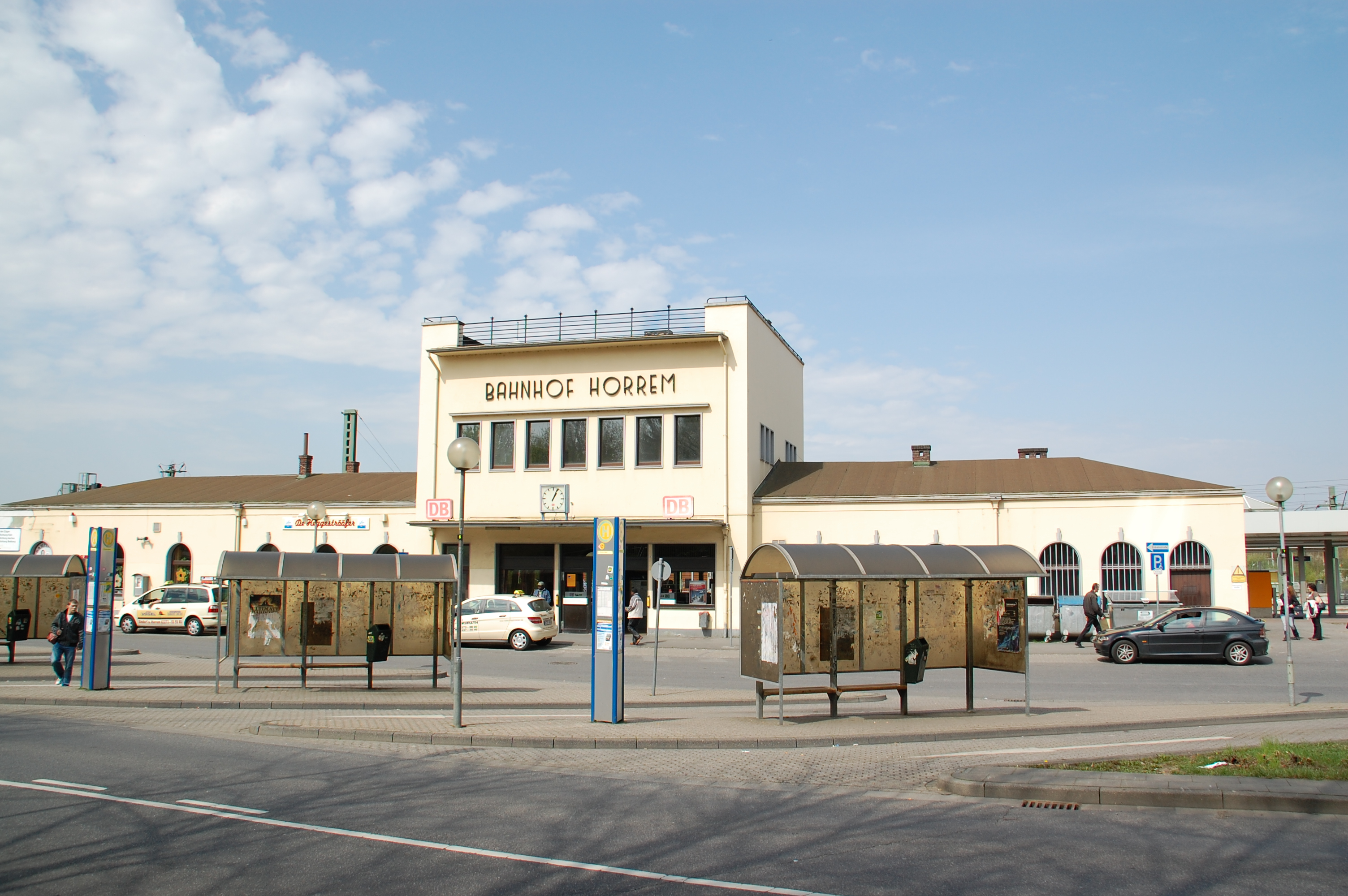 Railway Station in in Kerpen-Horrem, Germany